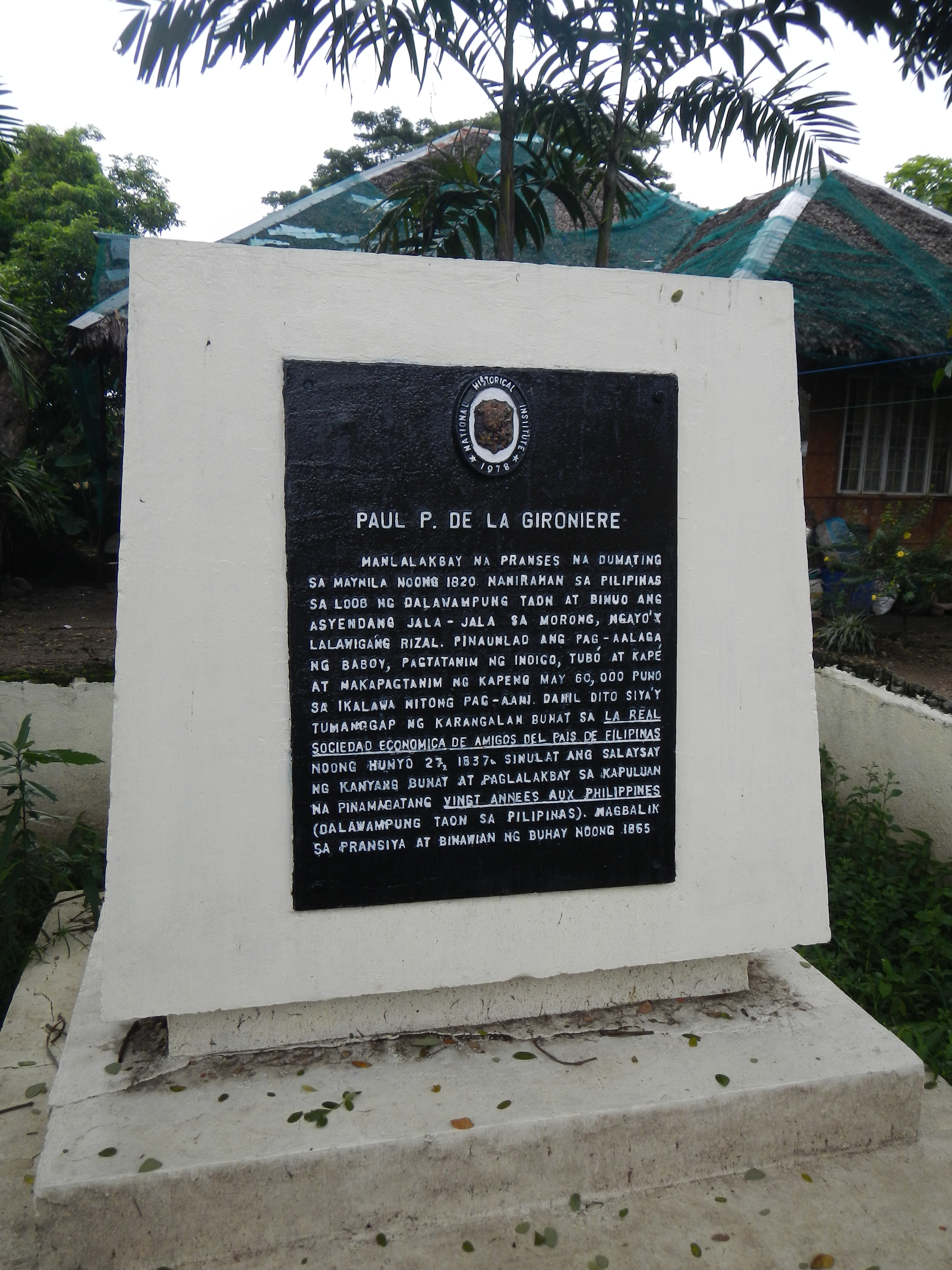 The historical marker on the former estate of Paul de la Gironière in Jalajala, Rizal.